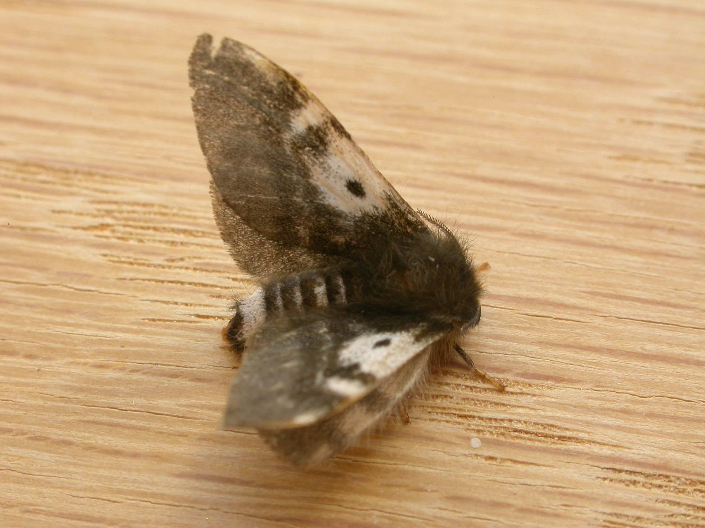 Nataxa flavescens (Walker, 1855), female, to MV light, Aranda, ACT, 14/15 November 2008